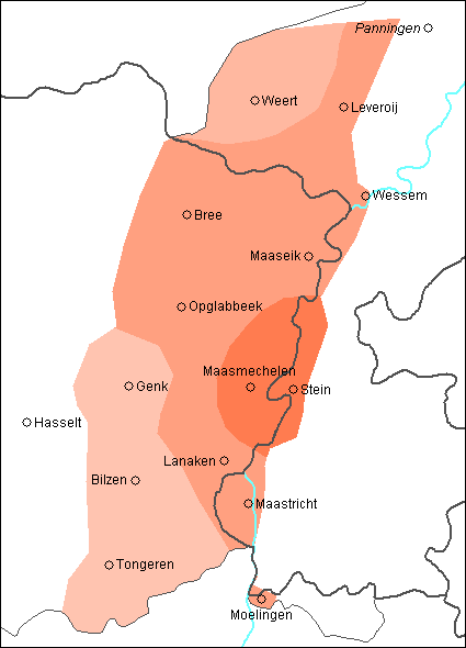 Outline of Centaal Limburgs (Central Limburgish) dialect